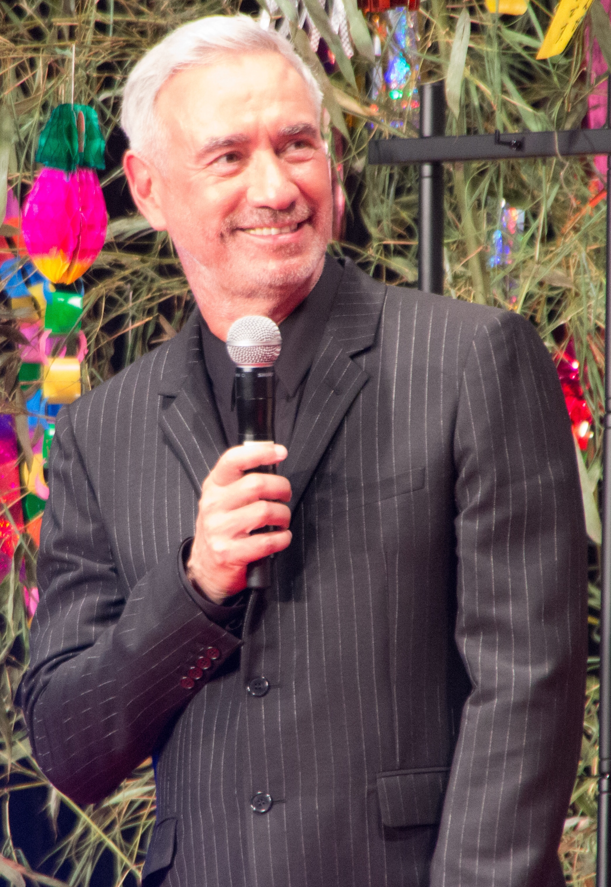 Filmmaker Roland Emmerich at the Japan premiere of Independence Day: Resurgence in 2016